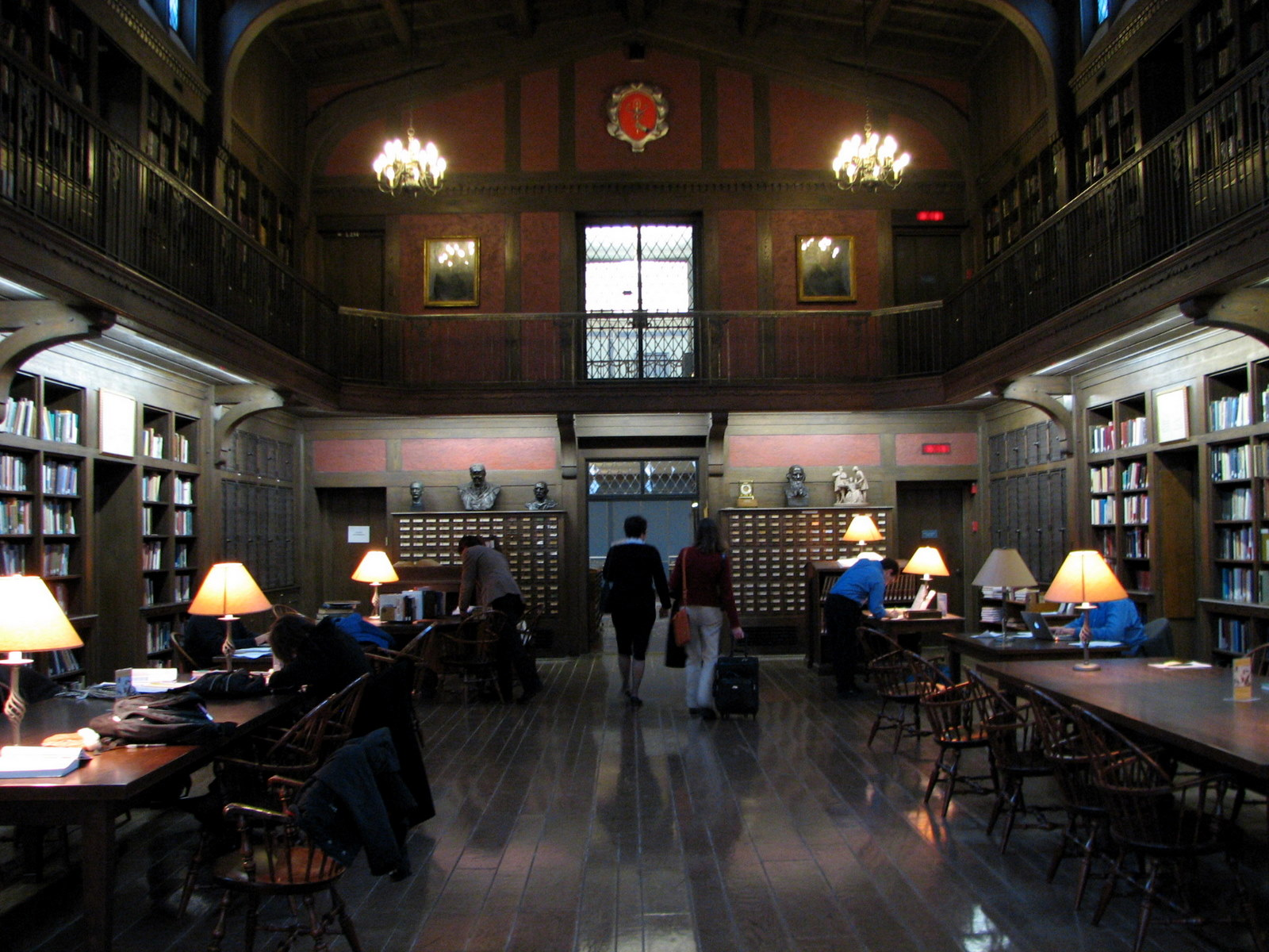 The Medical-Historical Library at Yale